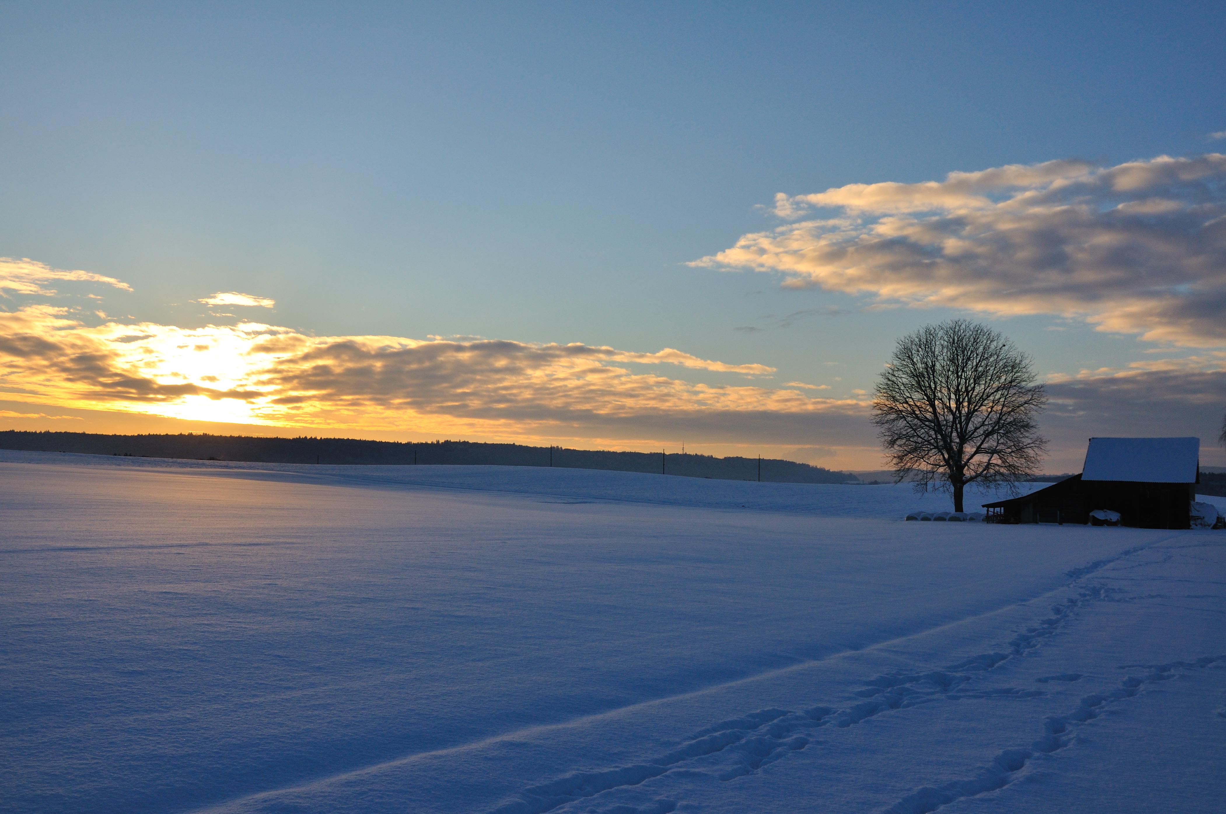 Switzerland, Canton of Schaffhausen, "golden hour" in Dörflingen on a cold winter day.